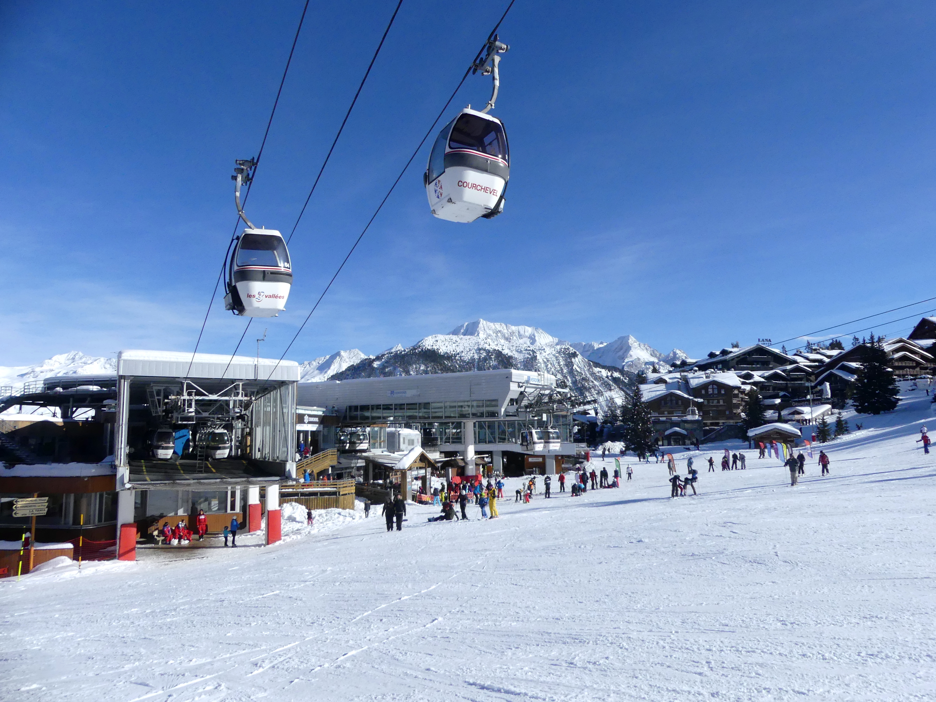 Sight of Courchevel 1850 Chenus gondola lift and snow front, in Savoie, France.